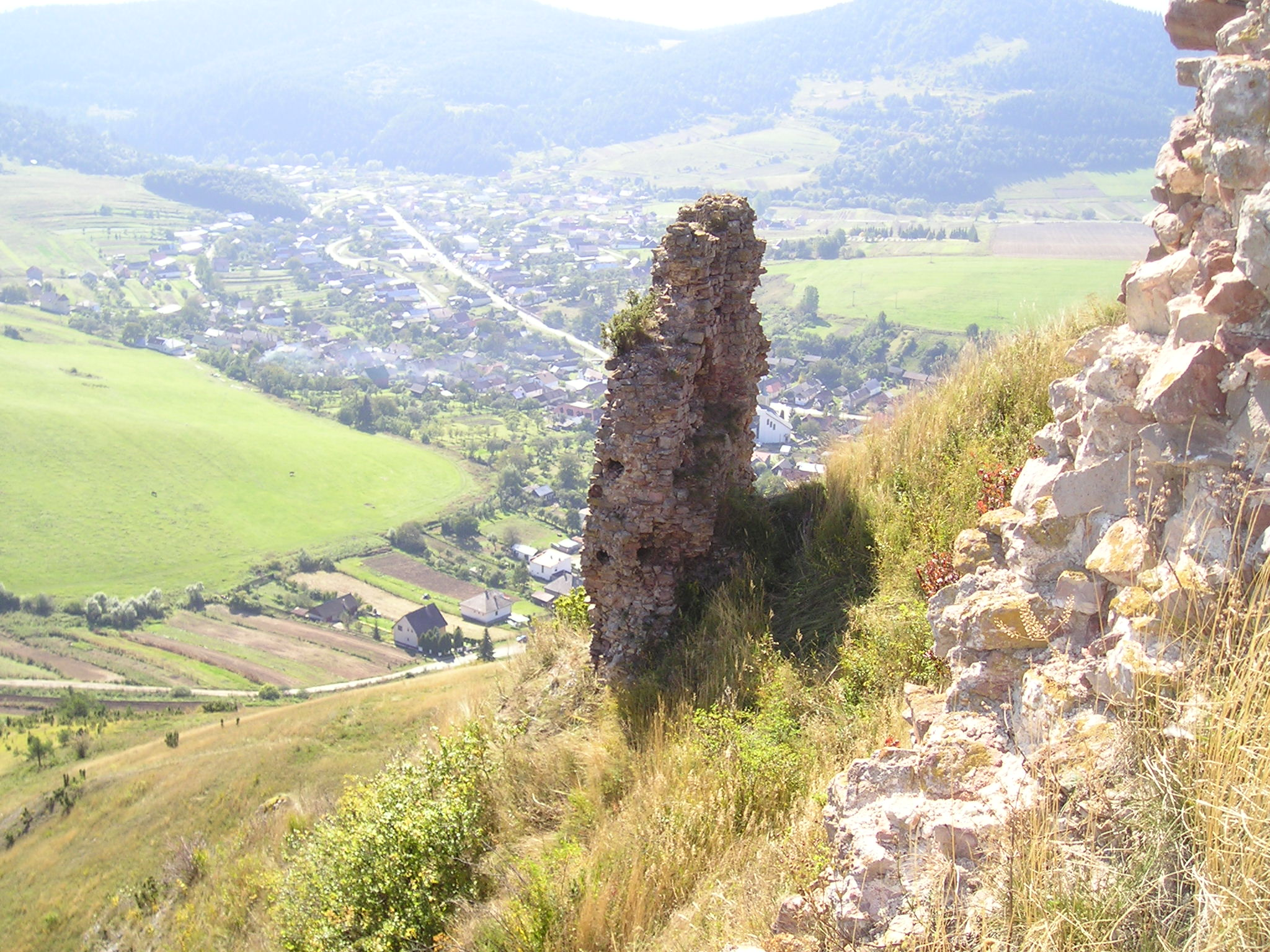 Kategória:Presunúť_na_Commons This medium shows the protected monument with the number 708-304/0 in the Slovak Republic.